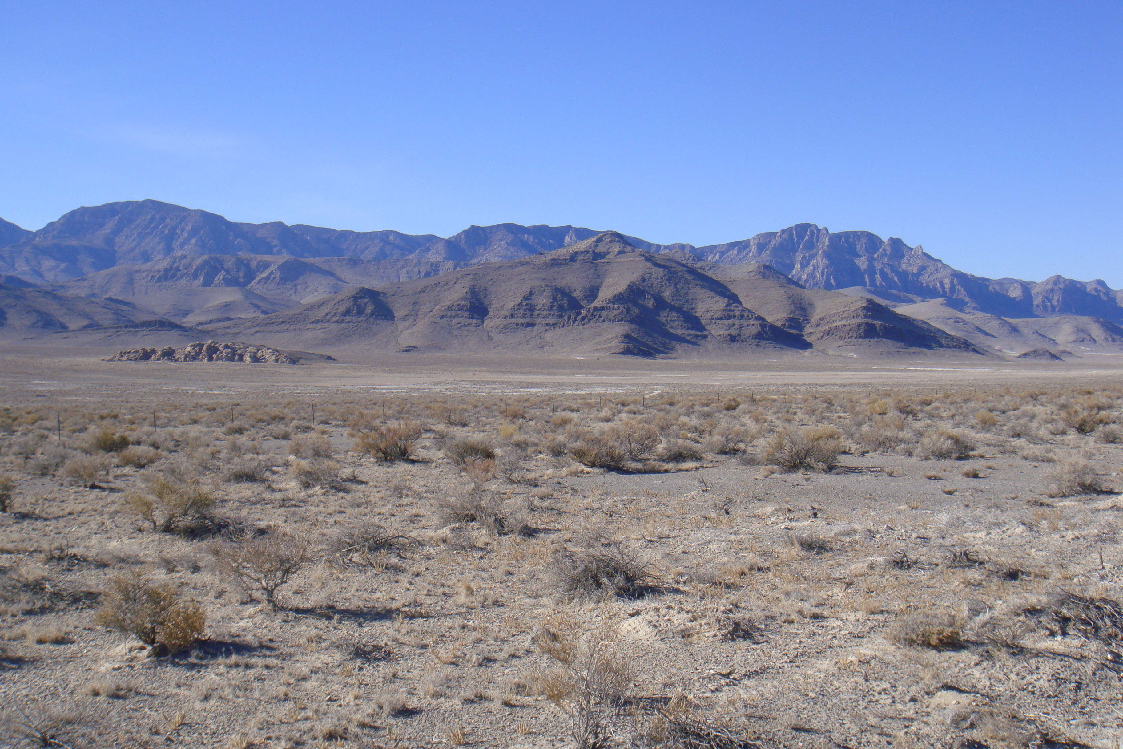 Confusion Range from Skull Rock Pass-(in south of House Range), looking west toward Kings Canyon, Utah-(route of US 6/US 50, through south section of Confusion Range).